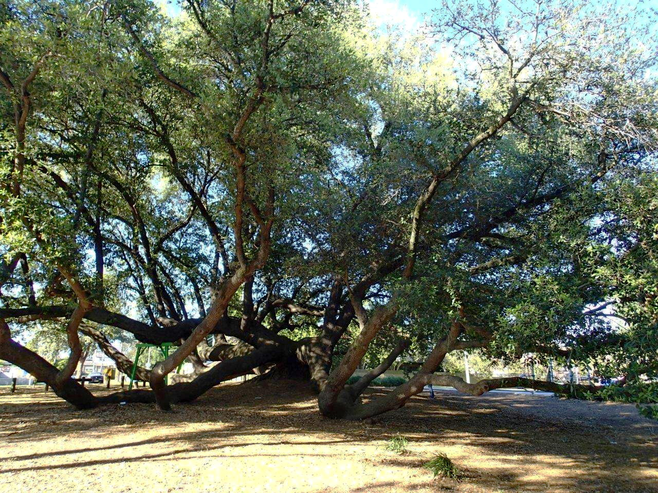 Planted in the 1830s, this Live Oak (Quercus virginiana) is one of the oldest trees in Sydney.